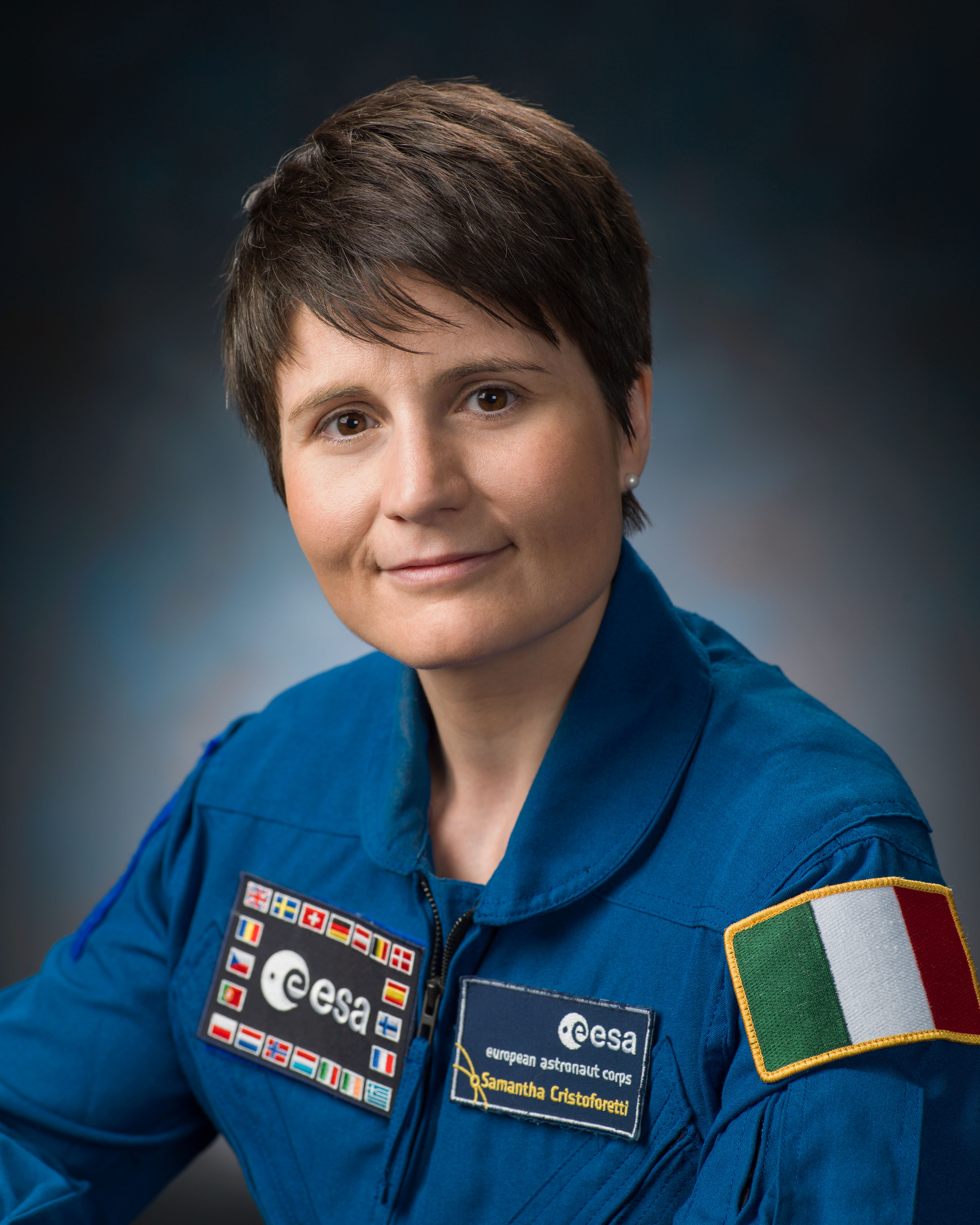 European Space Agency astronaut Samantha Cristoforetti, attired in her blue flight suit.